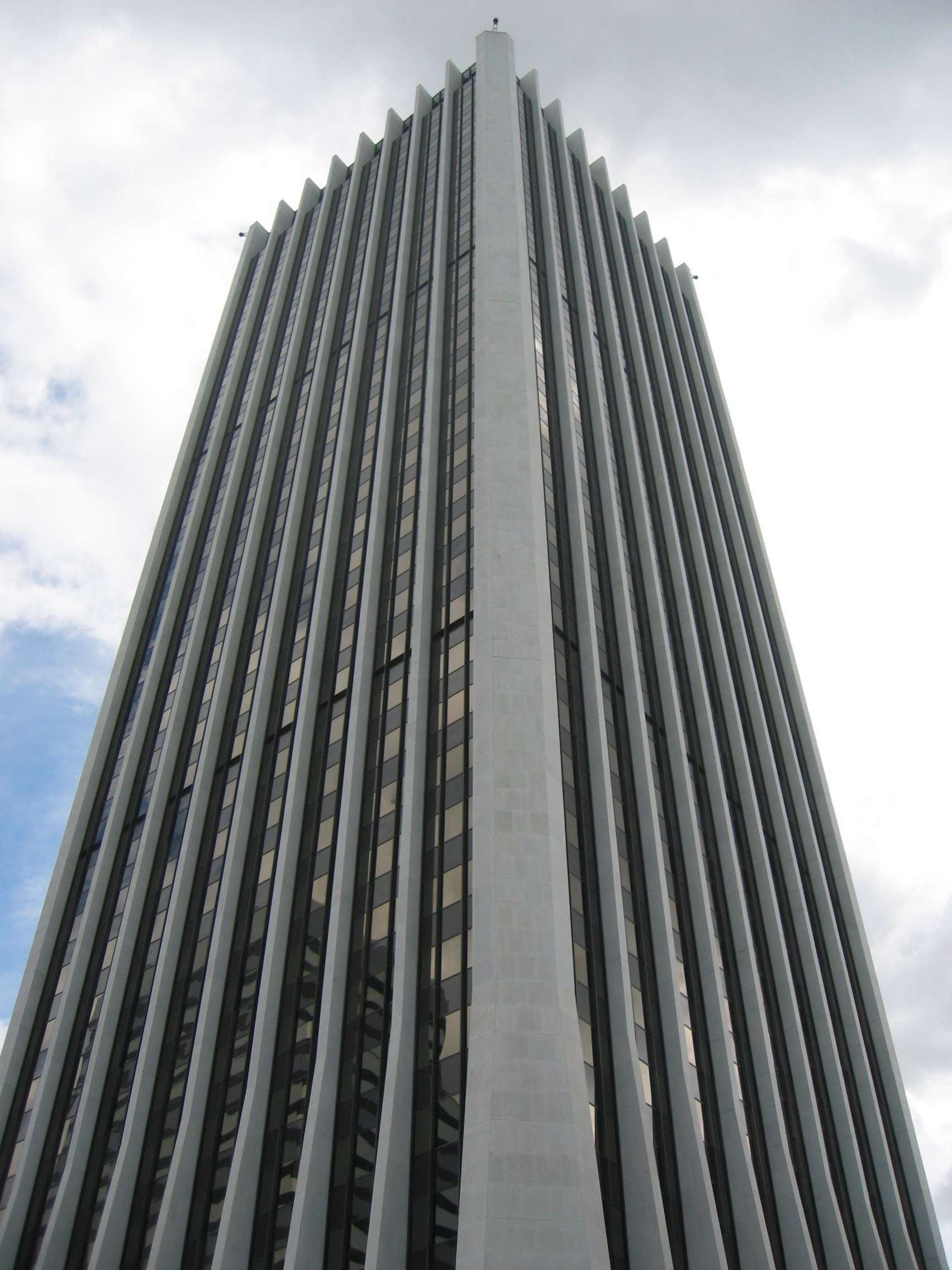 Close up view.